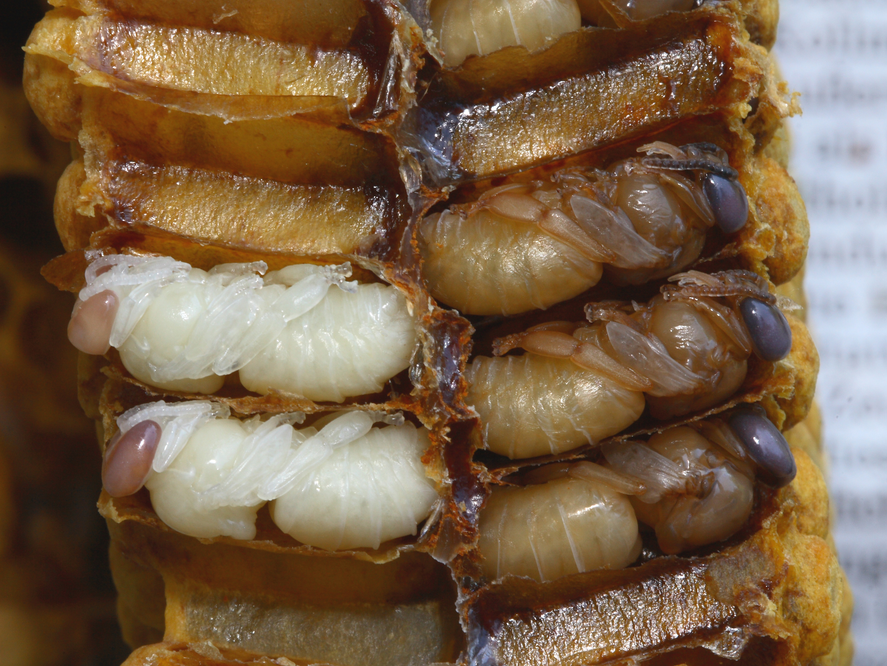 Pupae of drones (honeybee)